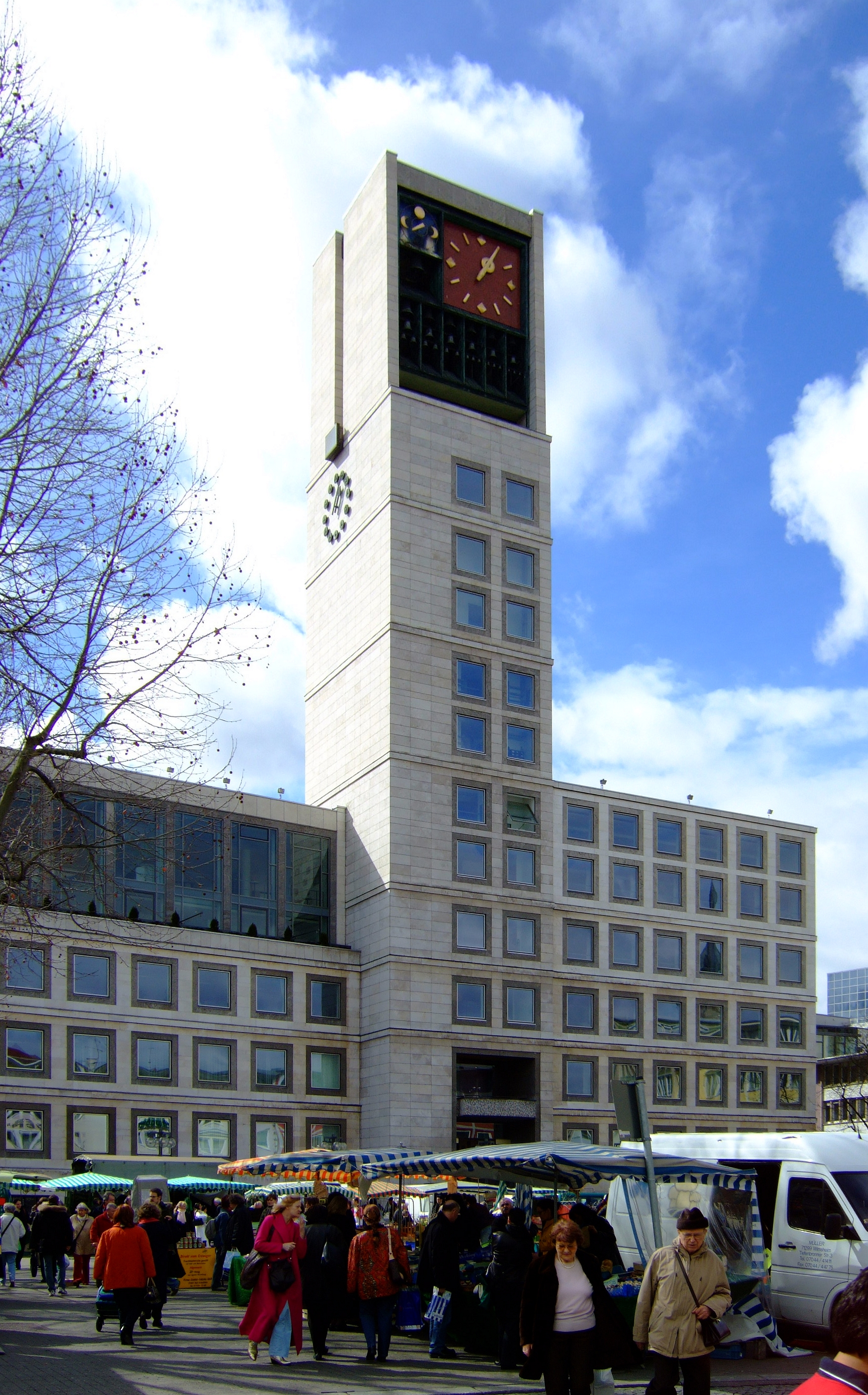 Townhall of Stuttgart/Germany